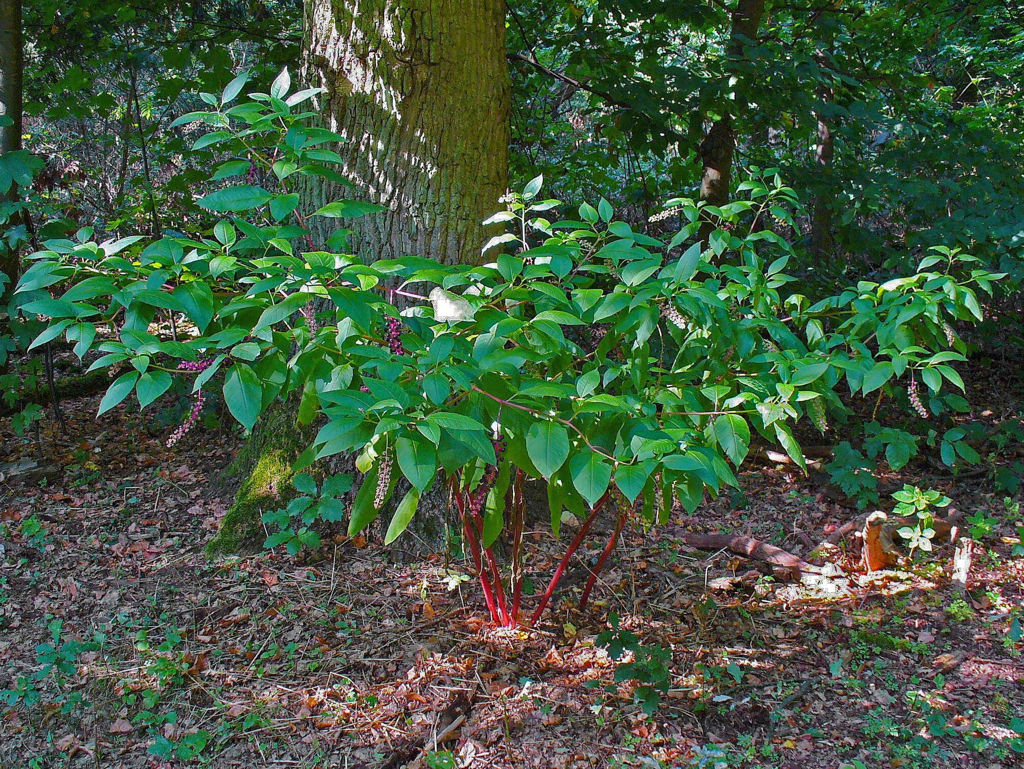 Phytolacca americana, Phytolaccaceae, American Pokeweed, American Nightshade, Cancer Jalap, Coakum, Garget, Inkberry, Pigeon Berry, Pocan Bush, Poke Root, Pokeweed, Redweed, Scoke, Red Ink Plant, habitus. Karlsruhe, Germany.